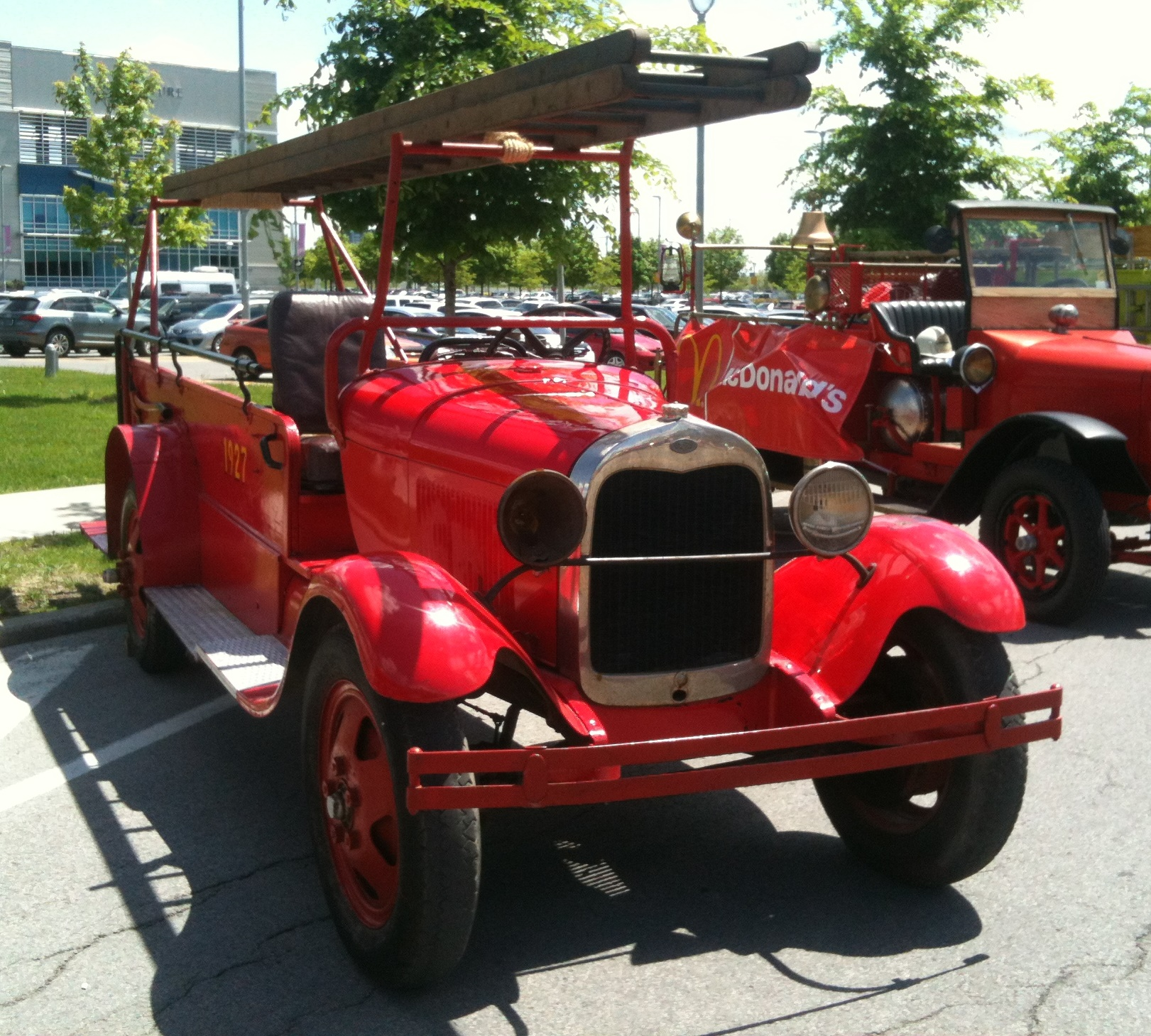 Ford Model TT photographed in Laval, Quebec, Canada at the 2014 Laval Fire Department Days show.